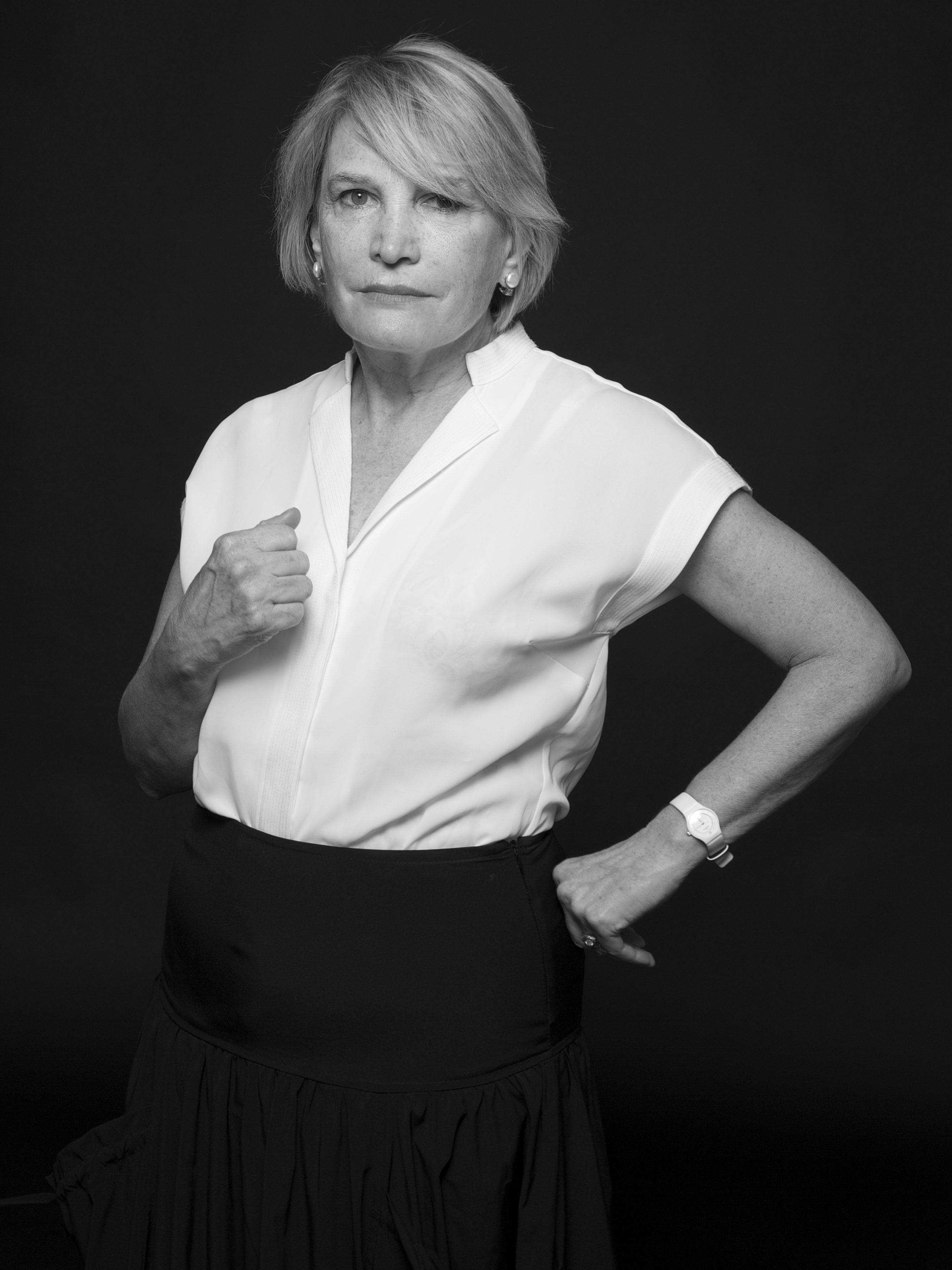 Global Justice Center's President and Founder, Janet Benshoof. Photo by Lynn Savarese for New York's New Abolitionists.